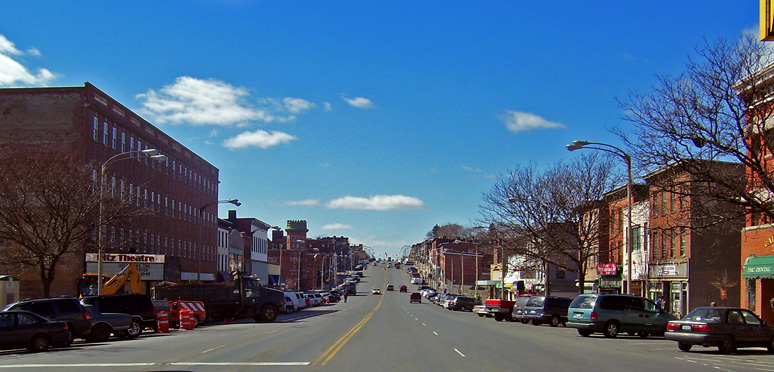 Photographed by Daniel Case 2006-03-20 at the Liberty Street intersection.